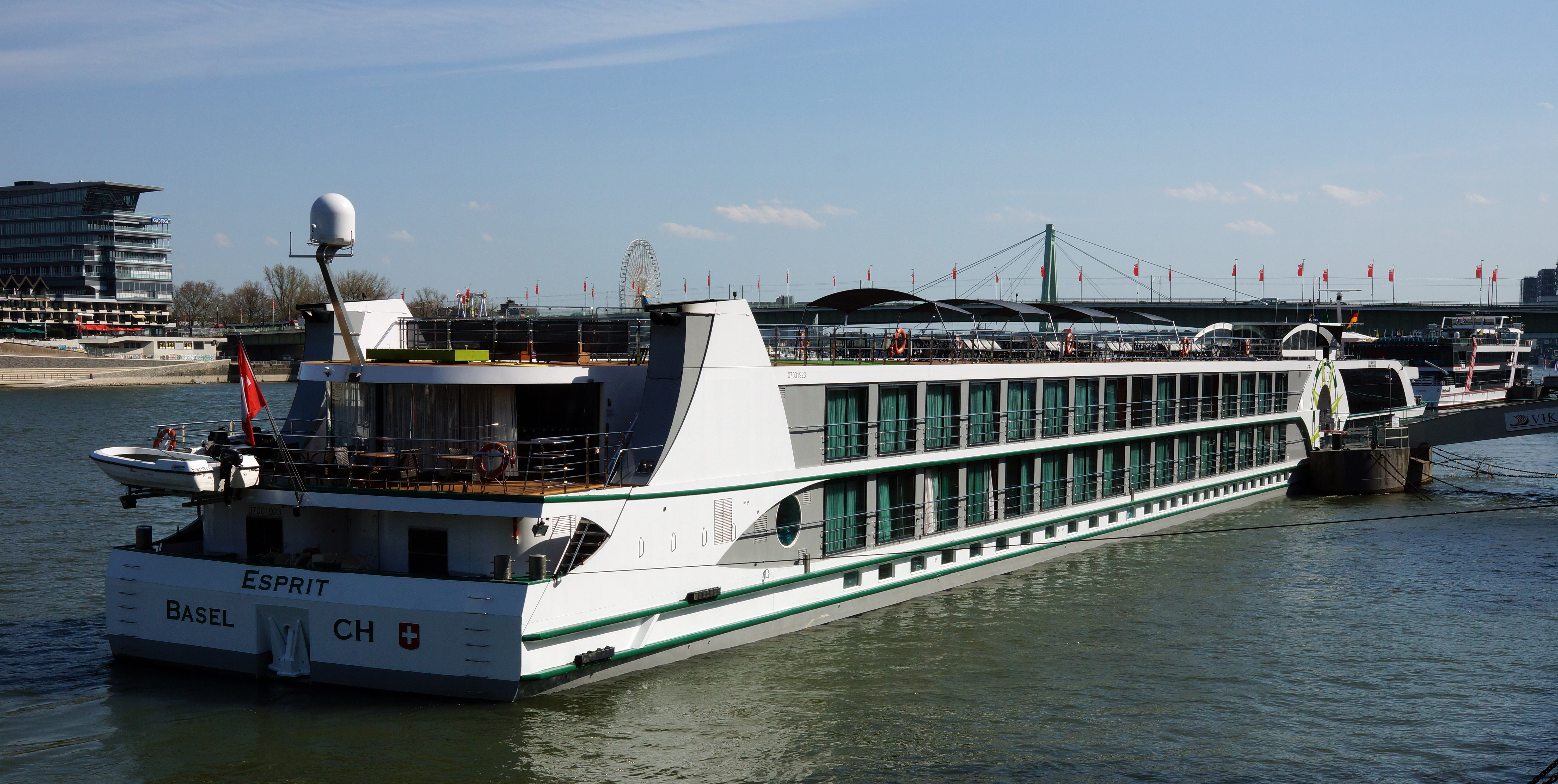 River cruise ship Esprit in Cologne.